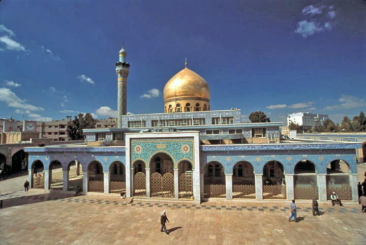 me, my pictures taken from my computer, none, i made this picture available to the public for this use.